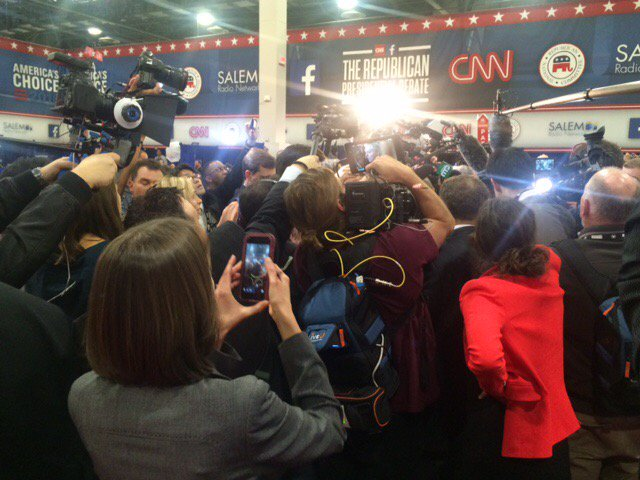 GOPdebate "spinroom" from VOA reporter Elizabeth Lee. #VOAAlert